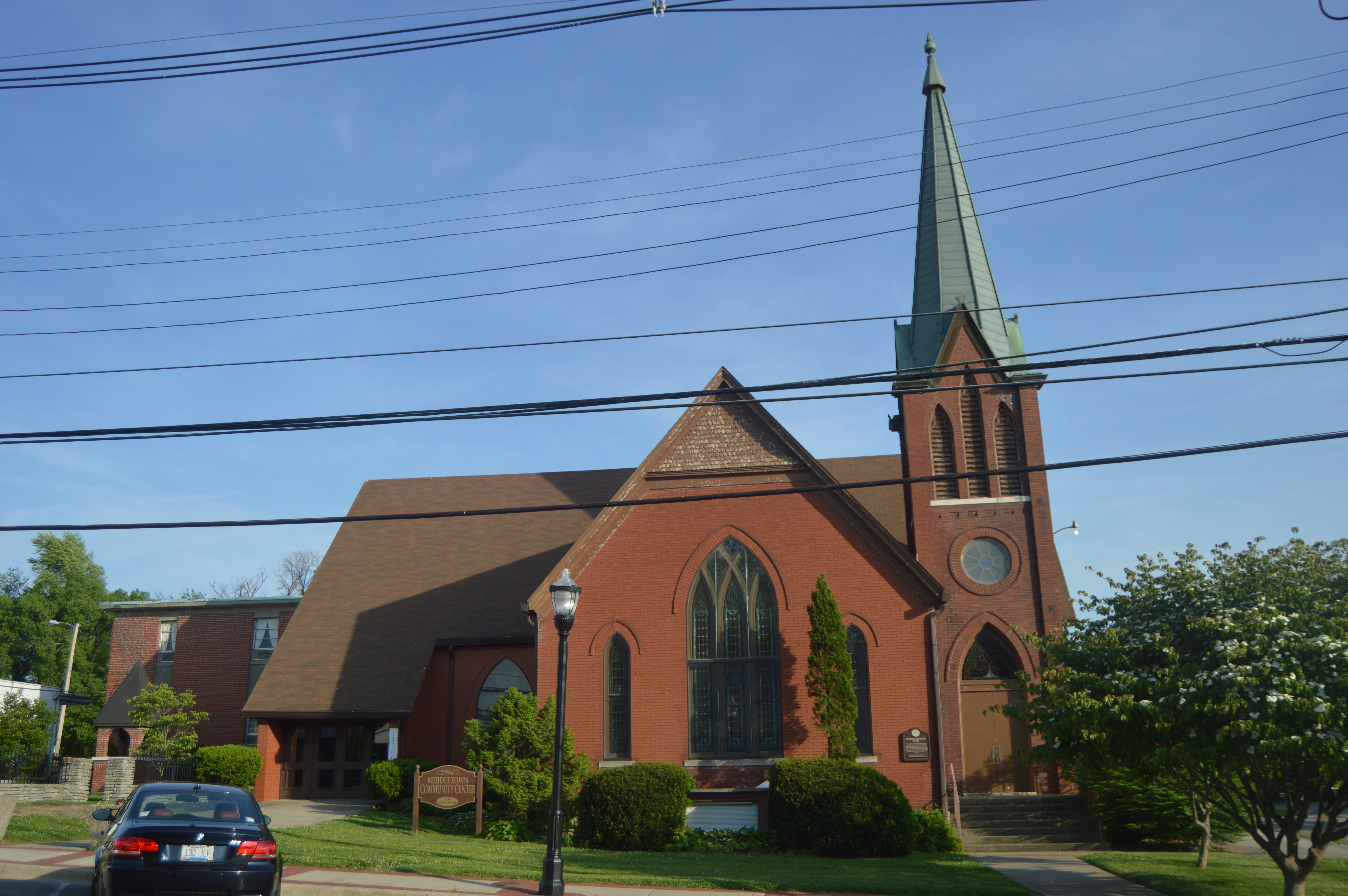 Front of the former Middletown United Methodist Church, located at the junction of Madison Avenue and Main Street in Middletown, Kentucky, United States. Built in 1899, it is listed on the National Register of Historic Places.